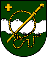 Source: "Fahnen-Gärtner GmbH, Mittersill" This image shows a flag, a coat of arms, a seal or some other official insignia. The use of such symbols is restricted in many countries. These restrictions are independent of the copyright status.